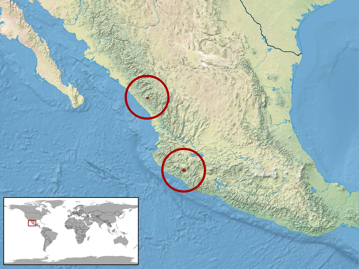 geographic distribution of Plestiodon colimensis